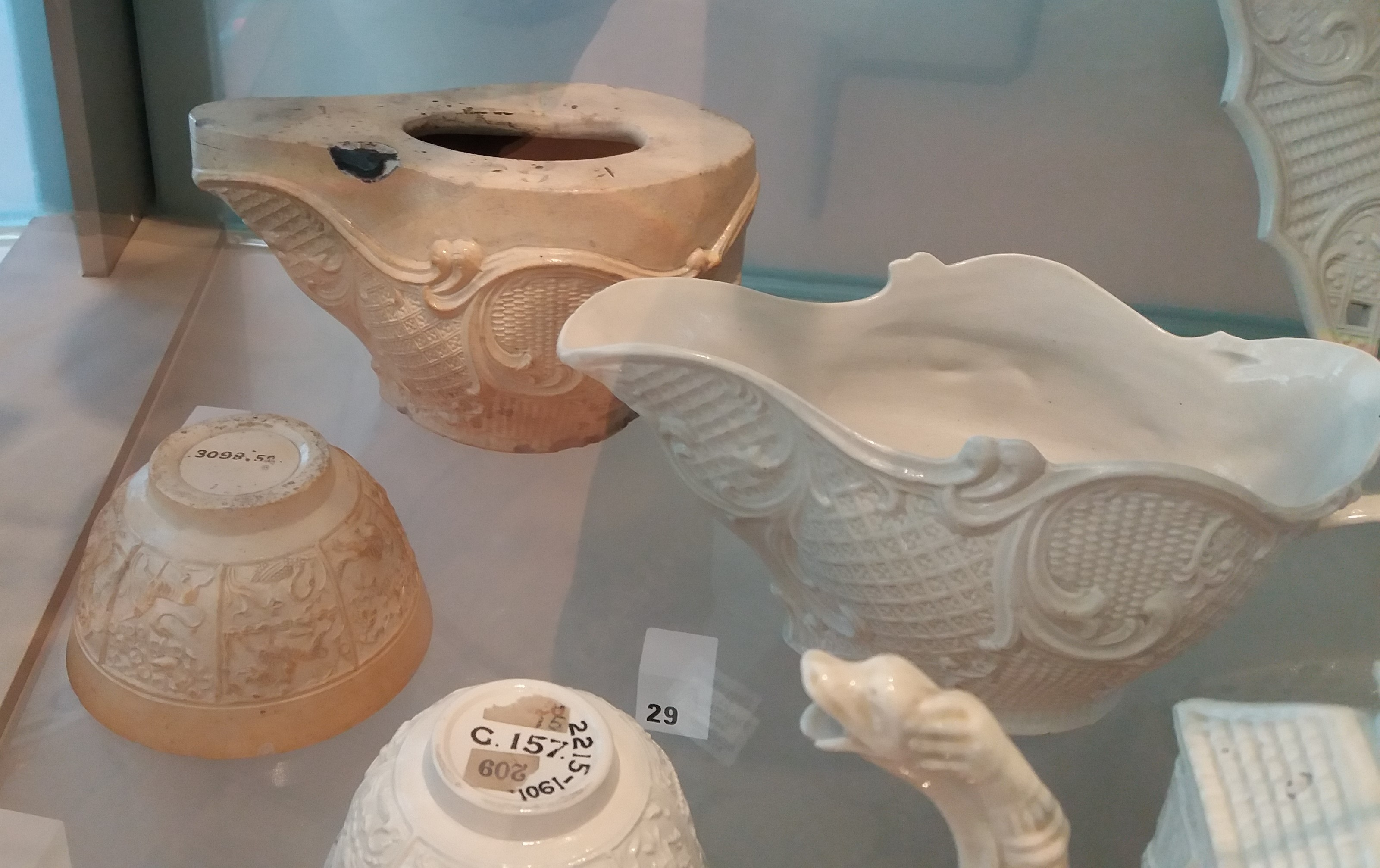 Block mould, by Aaron Wood 1757-65. On display at the Victoria & Albert Museum, London, Room 138.